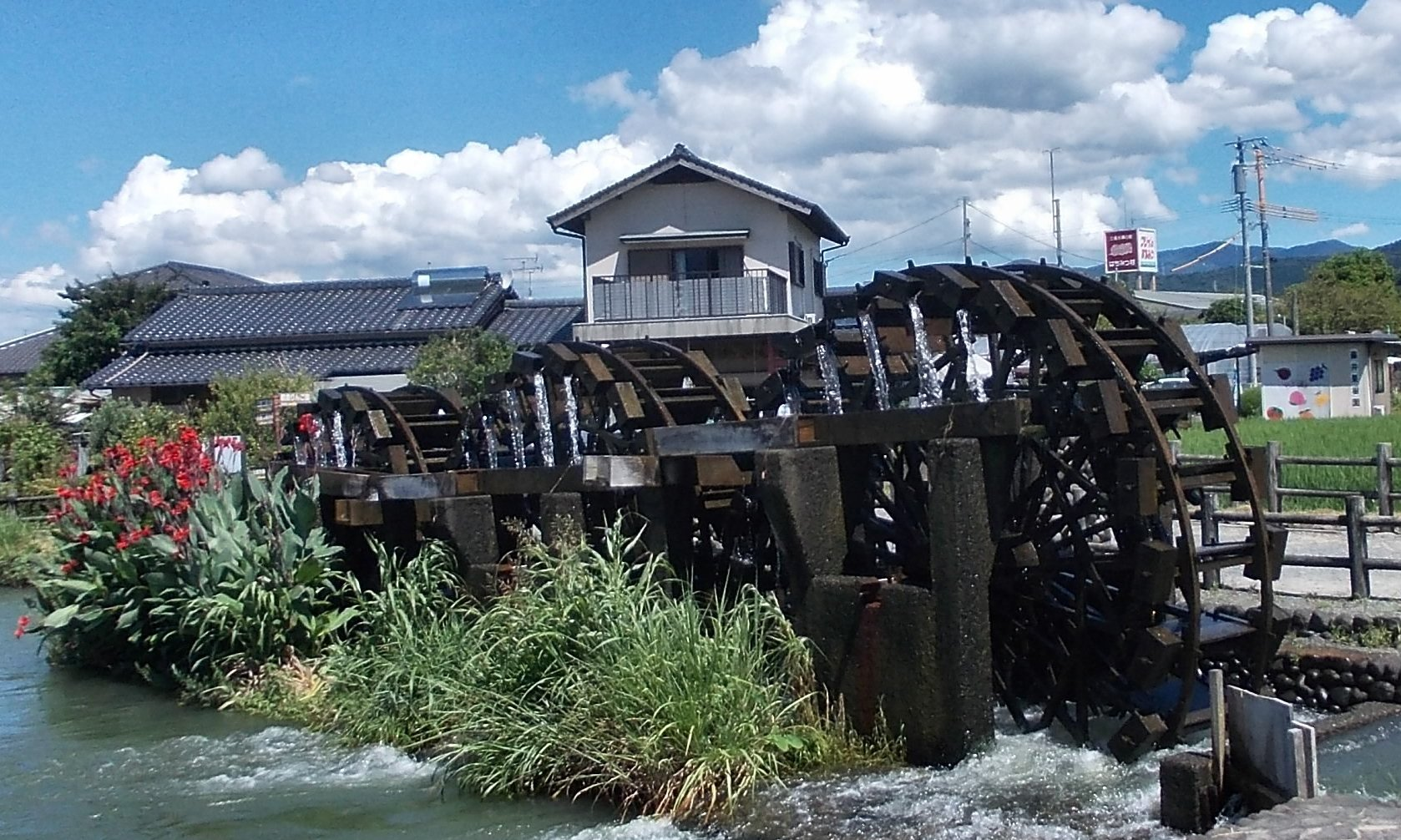 Asakura Three Water wheels, Asakura, Fukuoka, Japan